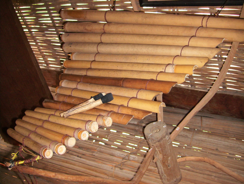 T'rung, a musical instrument of Bahnar people in Vietnam.